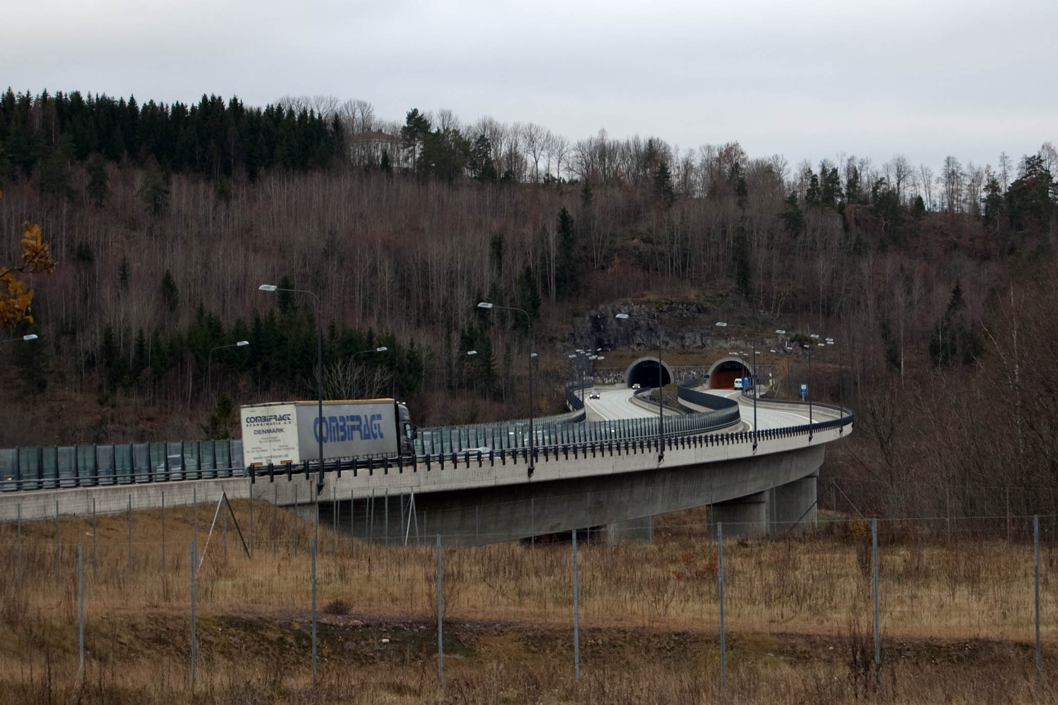 Helland bridge, highway E18, Vestfold, Norway